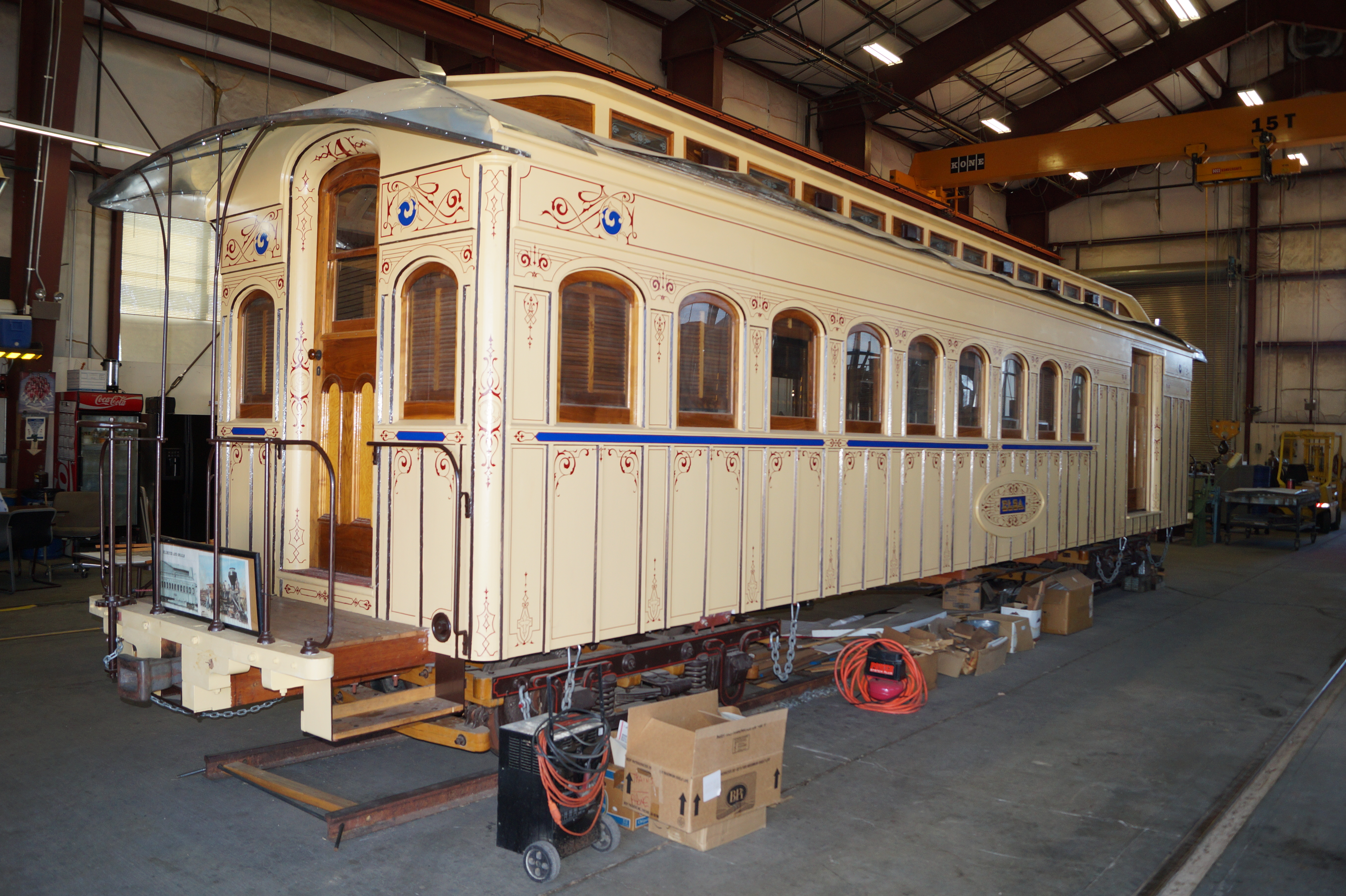 The Nevada State Railroad Museum which is an agency of the Nevada Department of Cultural Affairs. It is located at Yucca Street on the tracks of the historic Union Pacific Railroad branch Henderson-Boulder City near the former Boulder City Railroad Yards where the Hoover Dam construction equipment was unloaded in the 1930s.